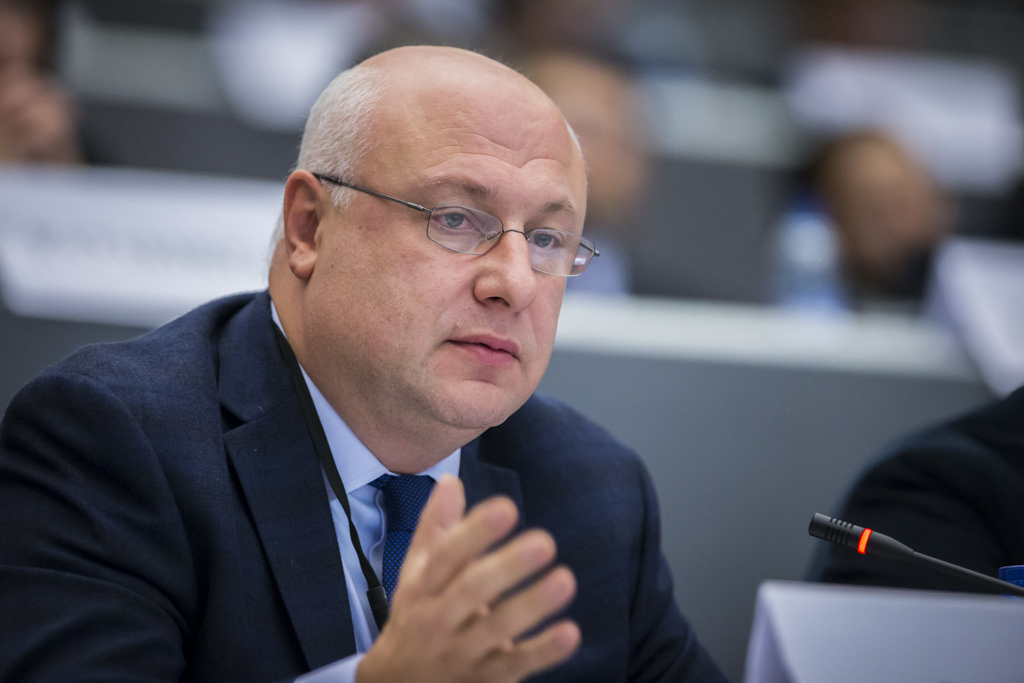 George Tsereteli (Georgia) at OSCE PA Autumn Mtg, Geneva, 5 October 2014 (photo courtesy of the Swiss Parliament/Fabio Chironi)